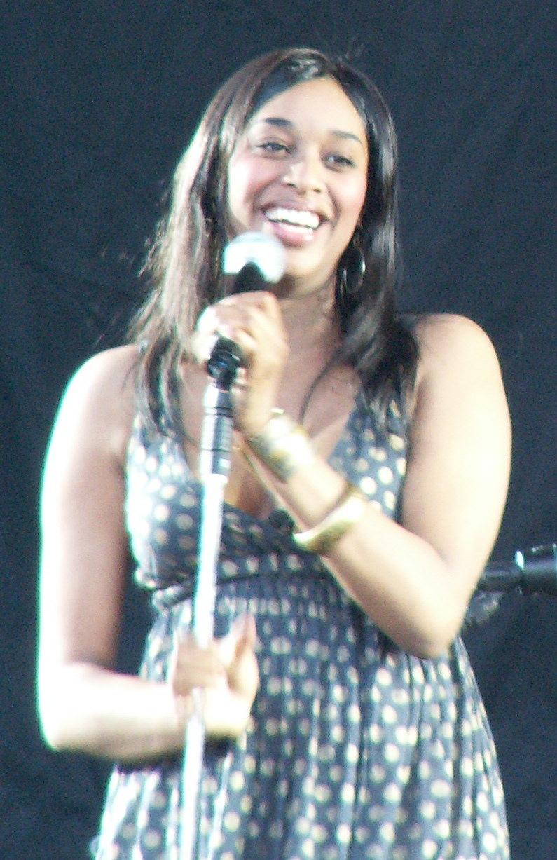 Keisha White performing as a support act for UB40 at Westonbirt Arboretum